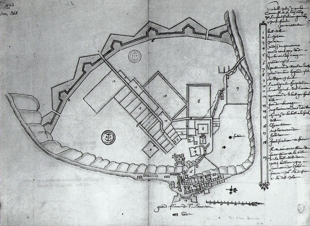 Plan of Quebec City by Jean Bourdon, 1664.